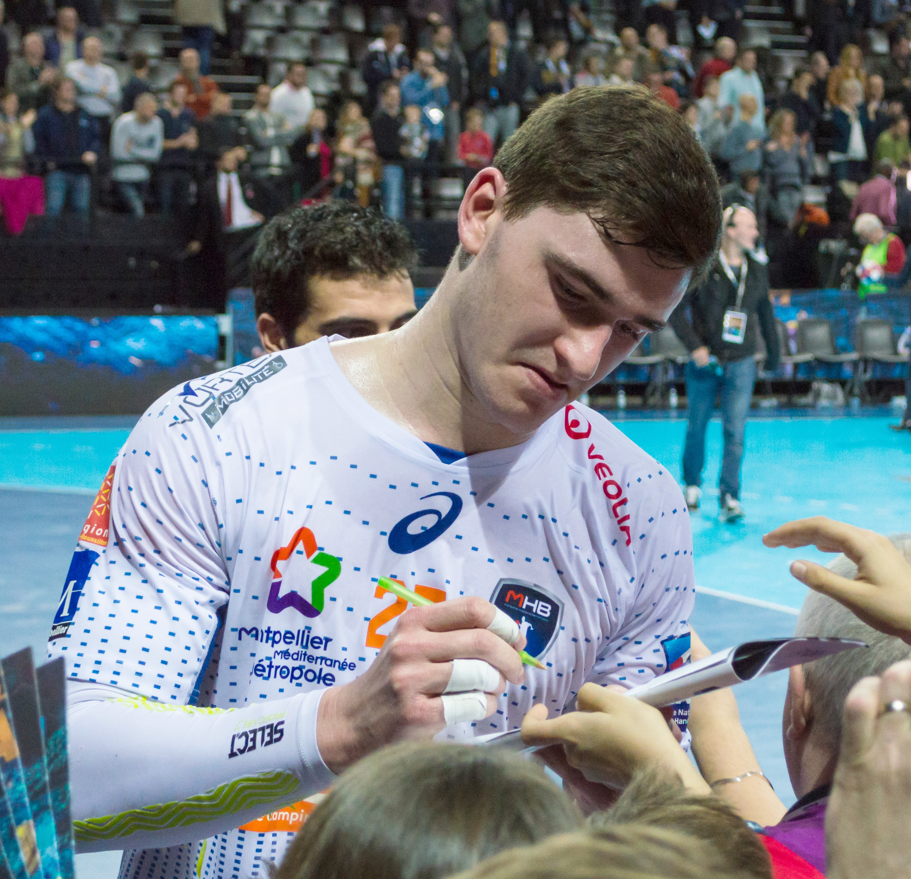 Semi-finale of the Handball League Cup, between Fenix HBC Nantes and Montpellier Handball.